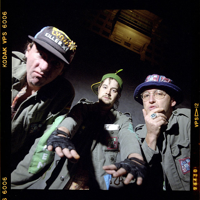 The Axemen photographed in Auckland to publicise their NZ Tour: wearing their distinctive hand-screenprinted shirts and hats by "Alpha II Omega".